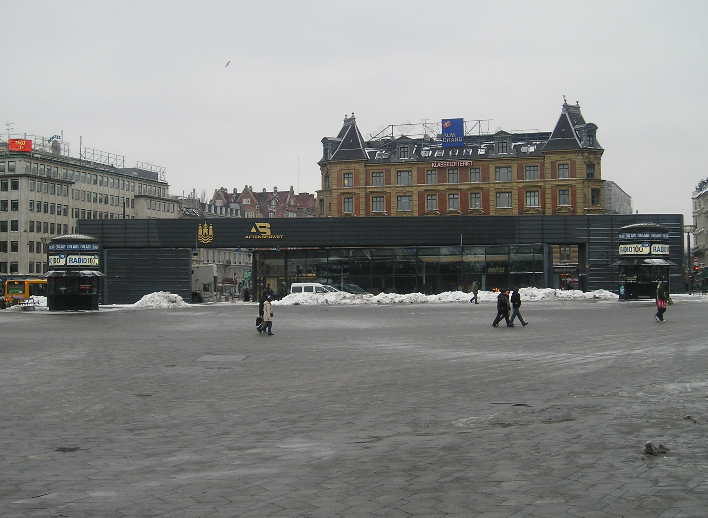 The bus terminal HT-terminalen in Copenhagen seen from Rådhuspladsen (Town hall square).